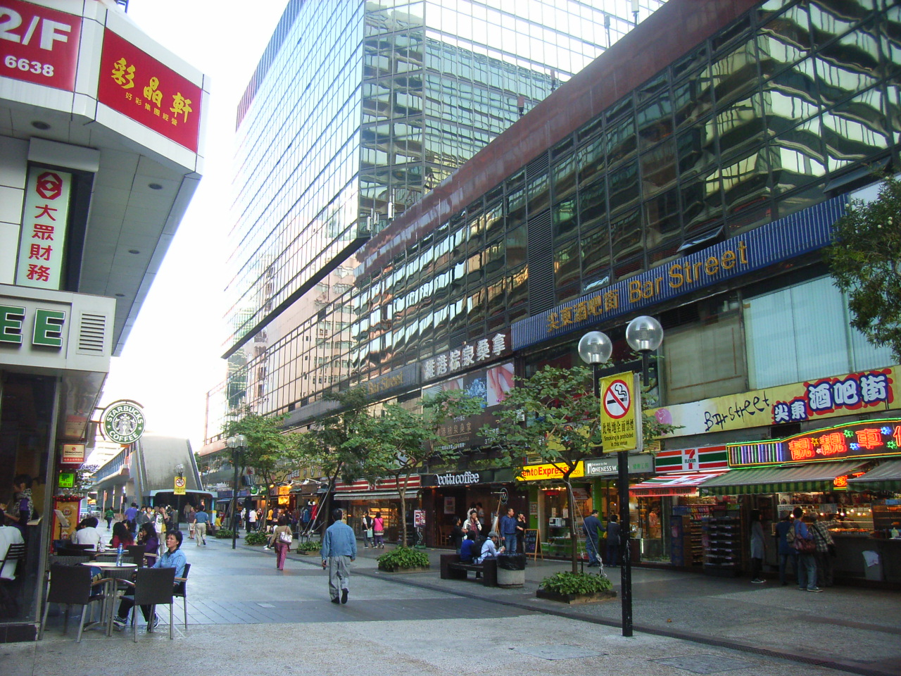 尖東